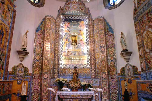 Nossa Senhora do Brasil Church - Virgins altar